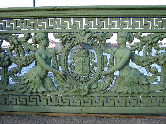 Liteyny Bridge